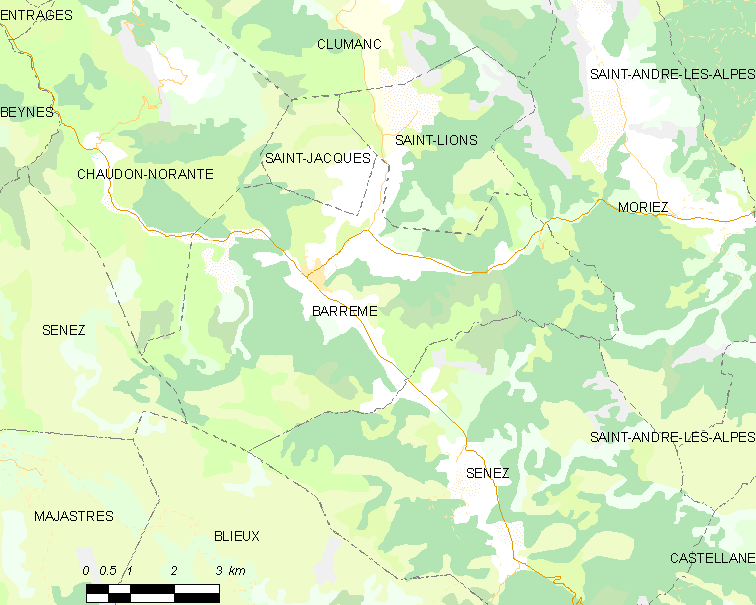 Map commune FR insee code 04022.png Légende